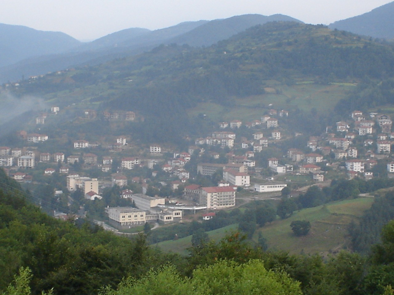 Photograph of Banite, Bulgaria. (Taken by Michael Collie)